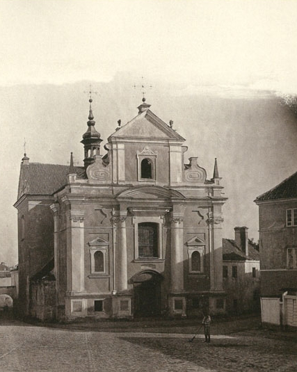 St. Joseph the Betrothed Church in Vilnius before it was demolished by the tsarist authorities in 1877 to enforce Russification policies.